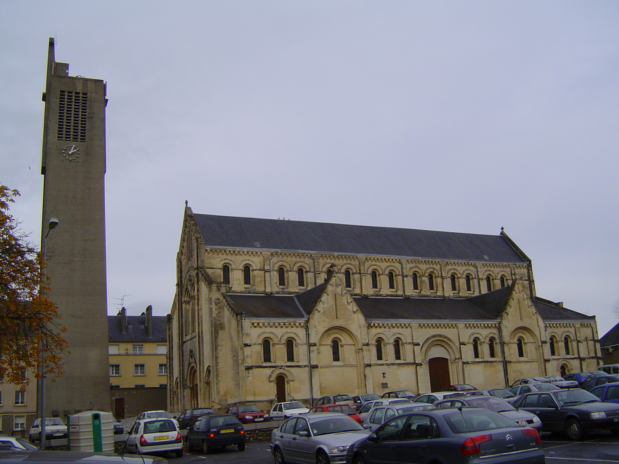 Sainte-Croix (Holy Cross) Church of Saint-Lô